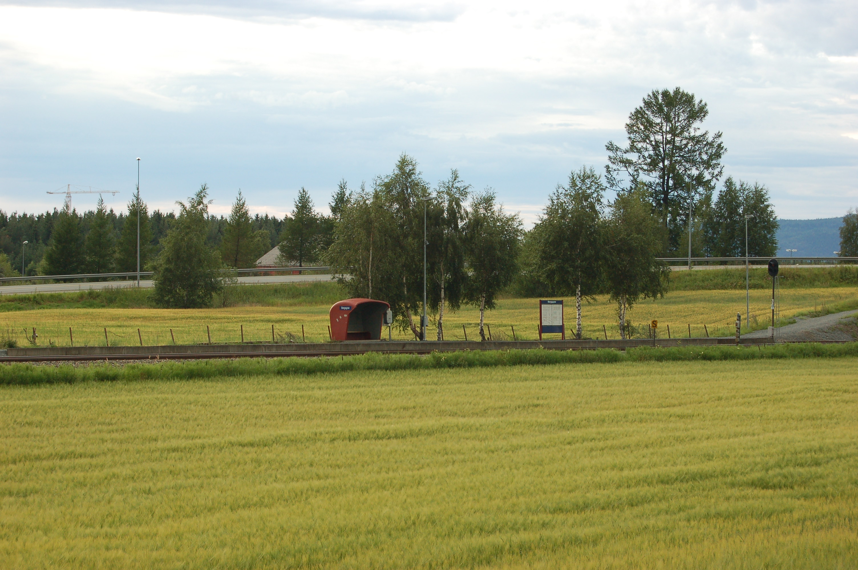 Bergsgrav Station, Norway on Nordlandsbanen. Note: This is not Verdal Station